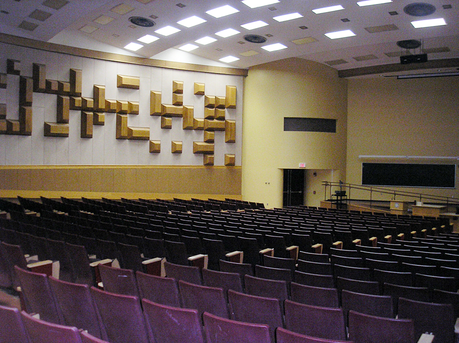 Lecture hall in David Lawrence Hall at the University of Pittsburgh prior to the 2014-15 renovation